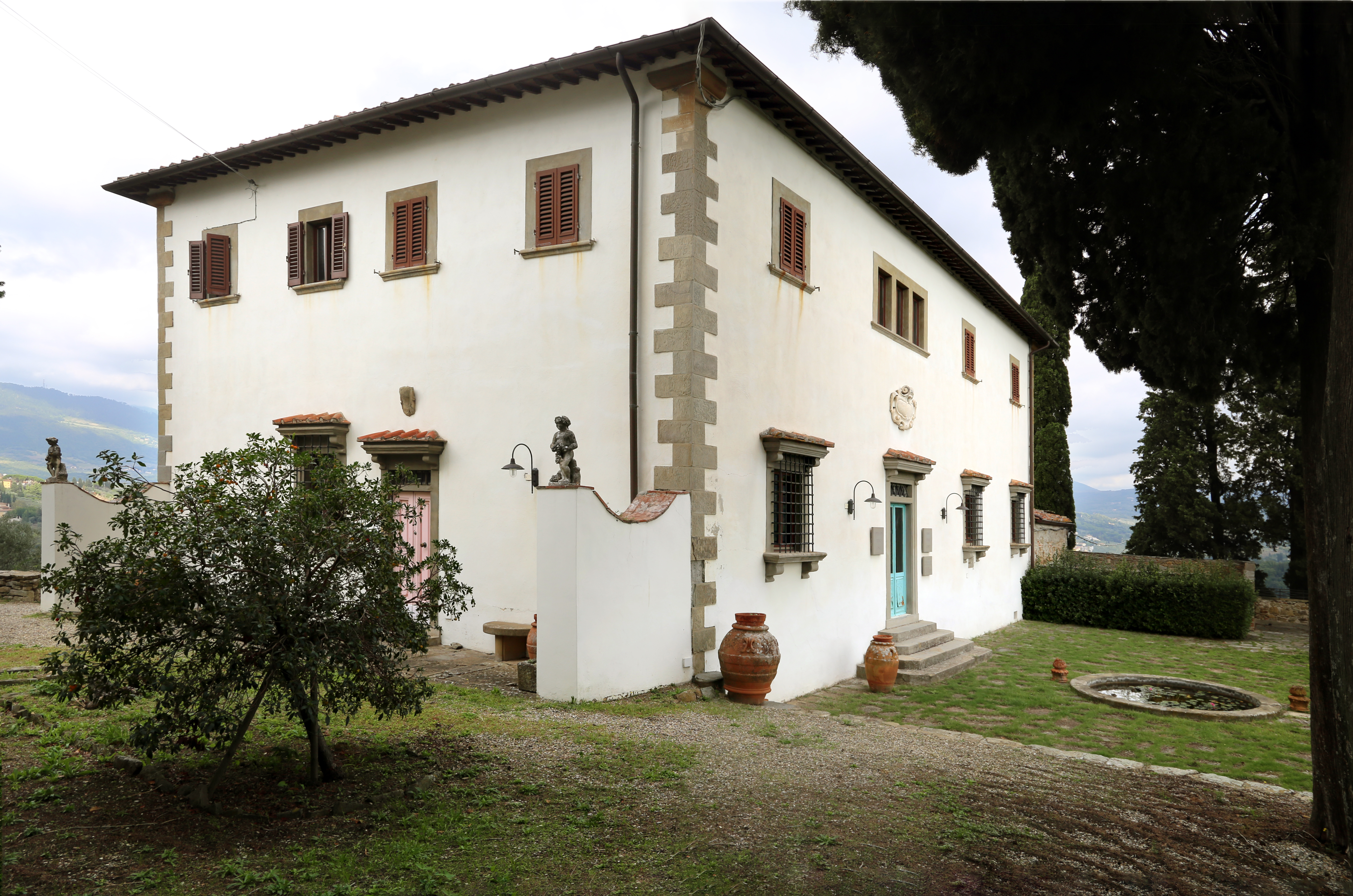 Villa Le Coste